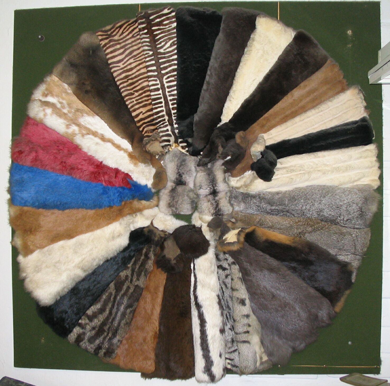 Rabbit skins